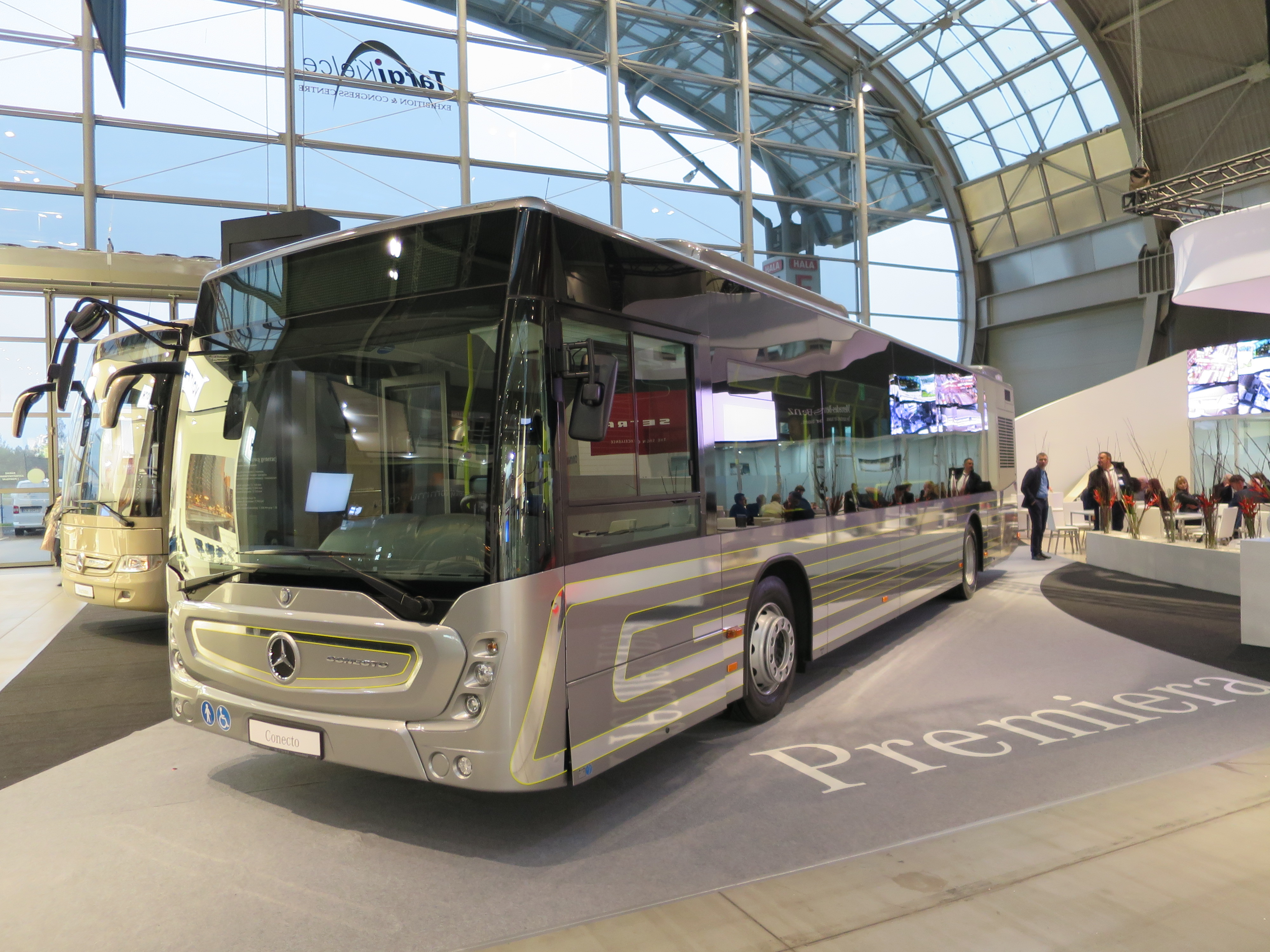 The making of this document was supported by Wikimedia Polska Association, within Wikigrant no. WG 2016-45. Mercedes-Benz Conecto